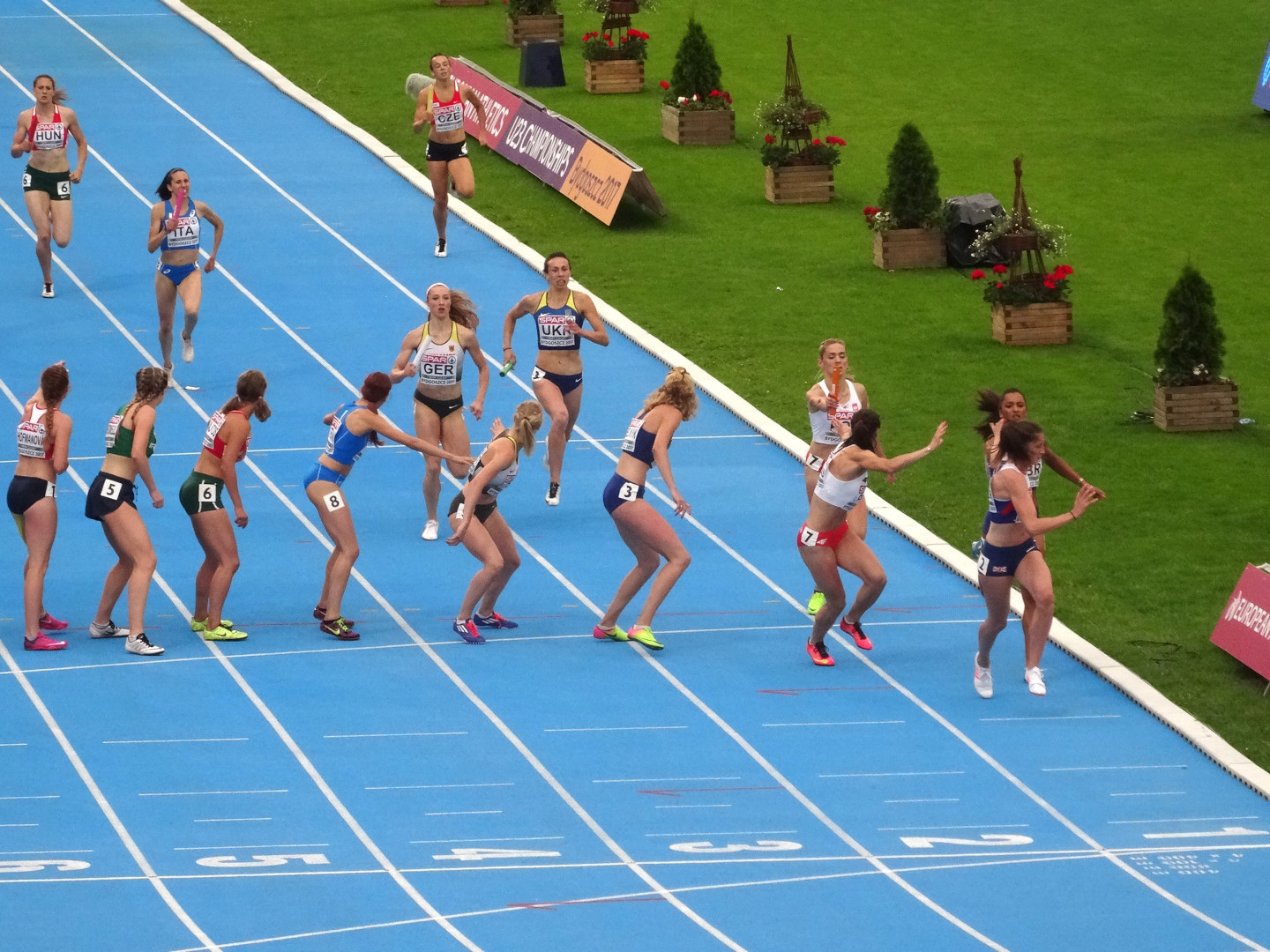 2017 European Athletics U23 Championships in Bydgoszcz Poland, 4x100m relay women final